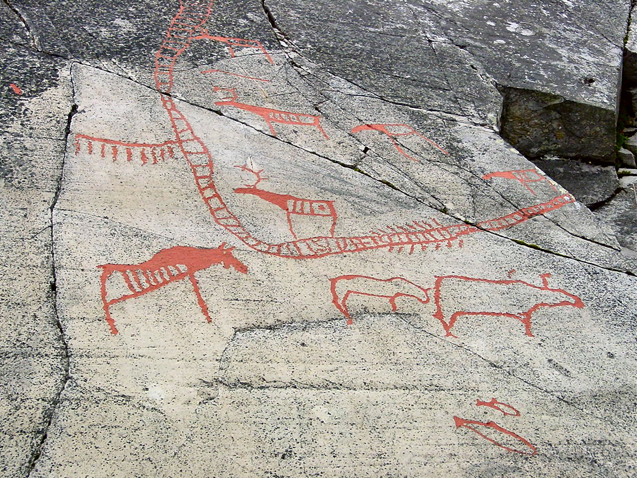 Photo taken by Bjørn Christian Tørrissen (uspn@wikipedia) in August 2004 in Alta, Norway. The photo is part of an on-line Finnmark gallery, at .